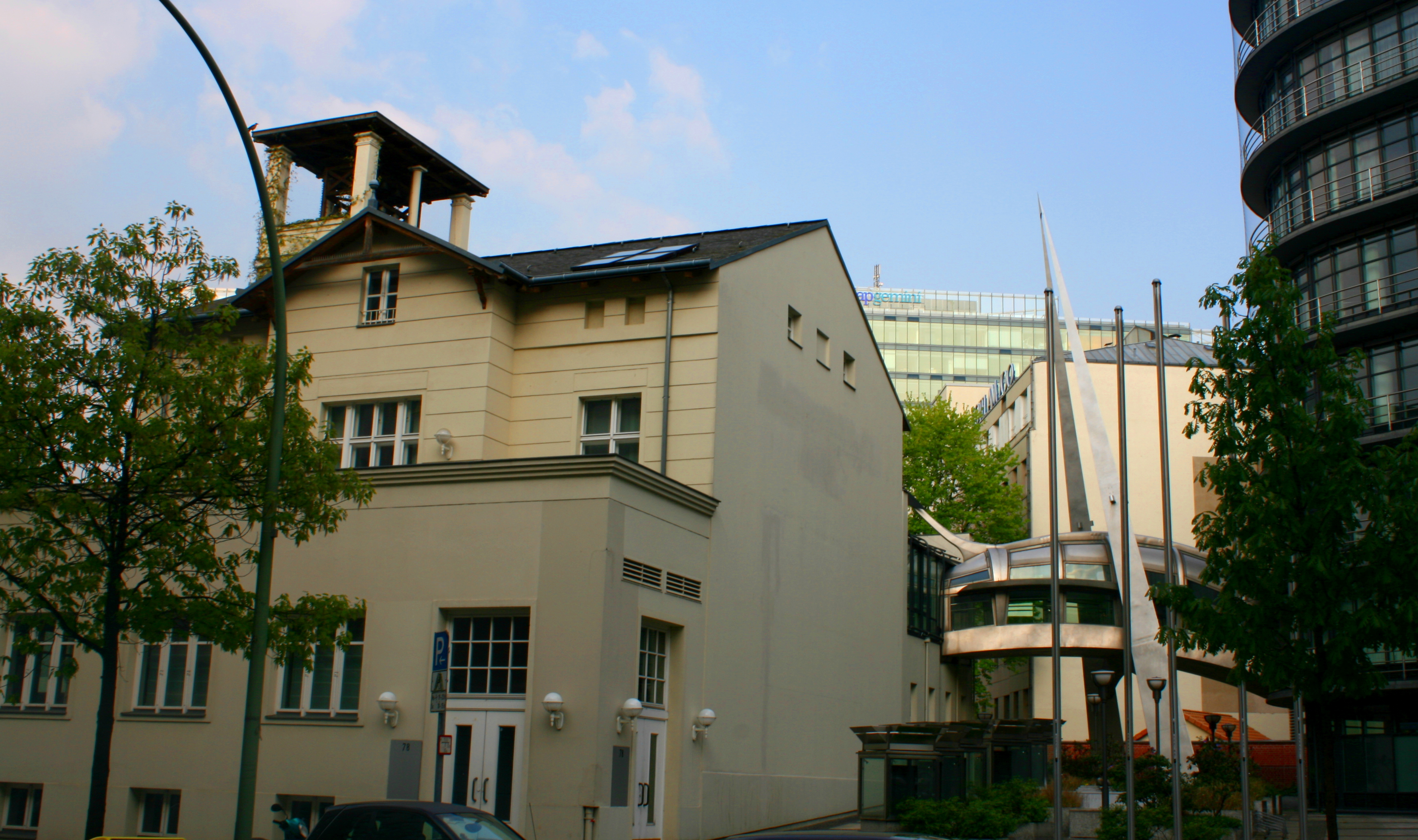 Villa Ilse and the bridge "phoenix" at Fasanenstraße in Berlin